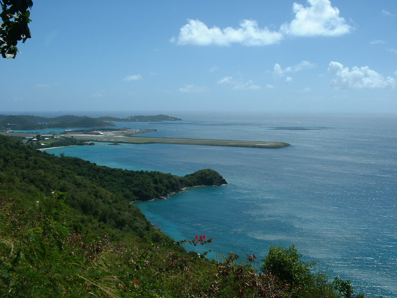 The Cyril E. King airport in St. Thomas, USVI, as seen from an overlook.